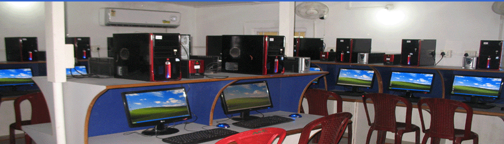 IT Lab